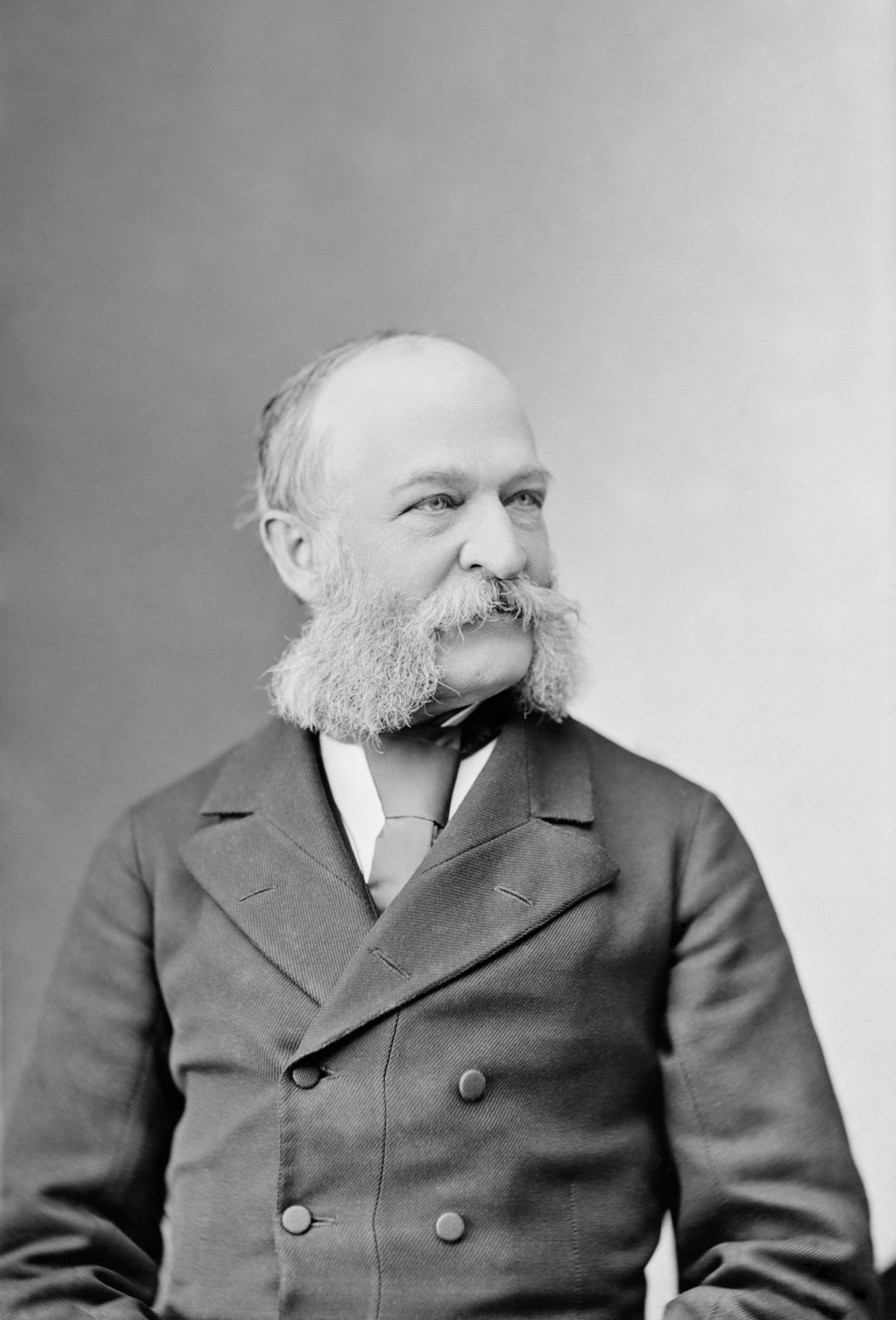 Republican Levi Parsons Morton of N.Y., the 22nd Vice President of the United States under Benjamin Harrison (1889-1893); also Representative for New York's 11th district (1879-1881), United States Minister to France under James A. Garfield (1881-1885), and, after his Vice-Presidentship, Governor of New York (1895–1896). Photograph from the Brady-Handy collection of the Library of Congress, restored by Adam Cuerden